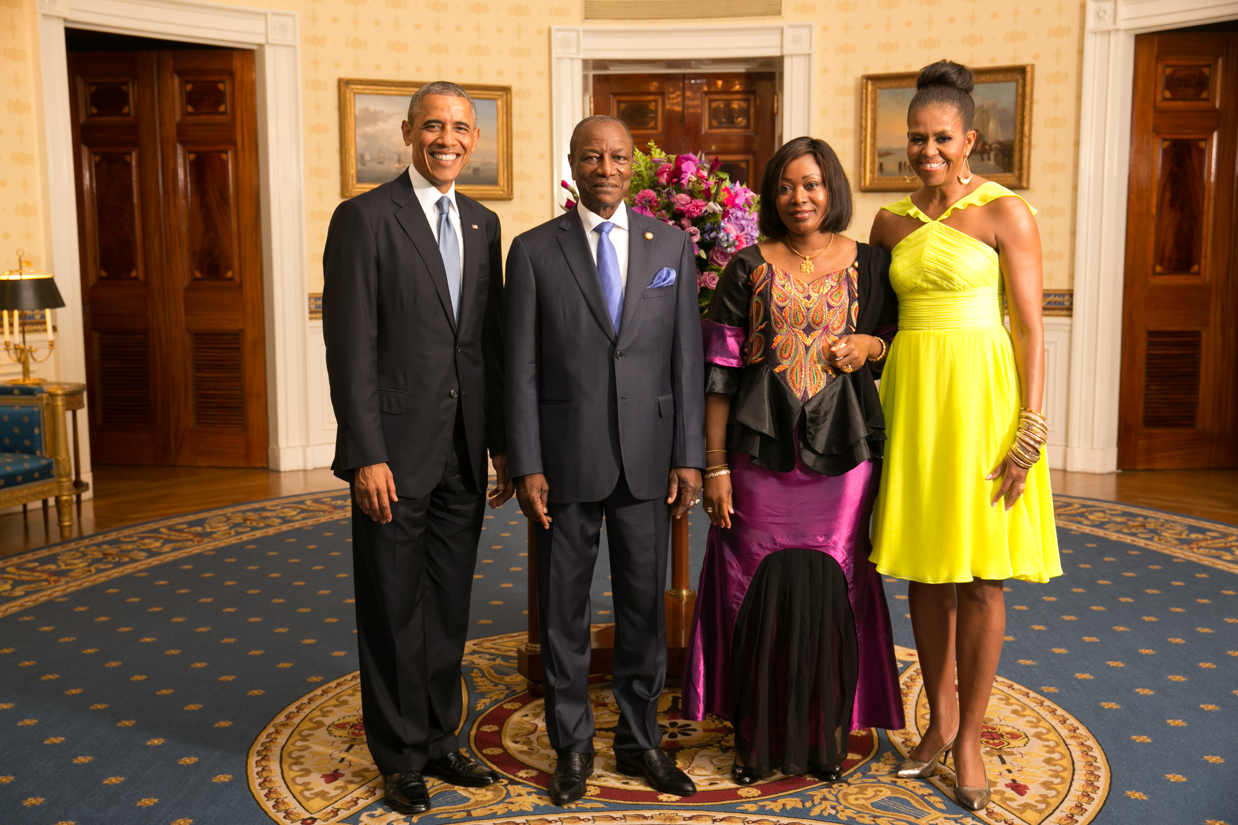 President Barack Obama and First Lady Michelle Obama greet His Excellency Alpha Conde, President of the Republic of Guinea, and Mrs. Djene Kaba Conde, in the Blue Room during a U.S.-Africa Leaders Summit dinner at the White House, Aug. 5, 2014. [Official White House Photo by Amanda Lucidon] This official White House photograph is in the public domain from a copyright perspective, so while restrictions such as personality or privacy rights may apply, in general, manipulations are allowed.